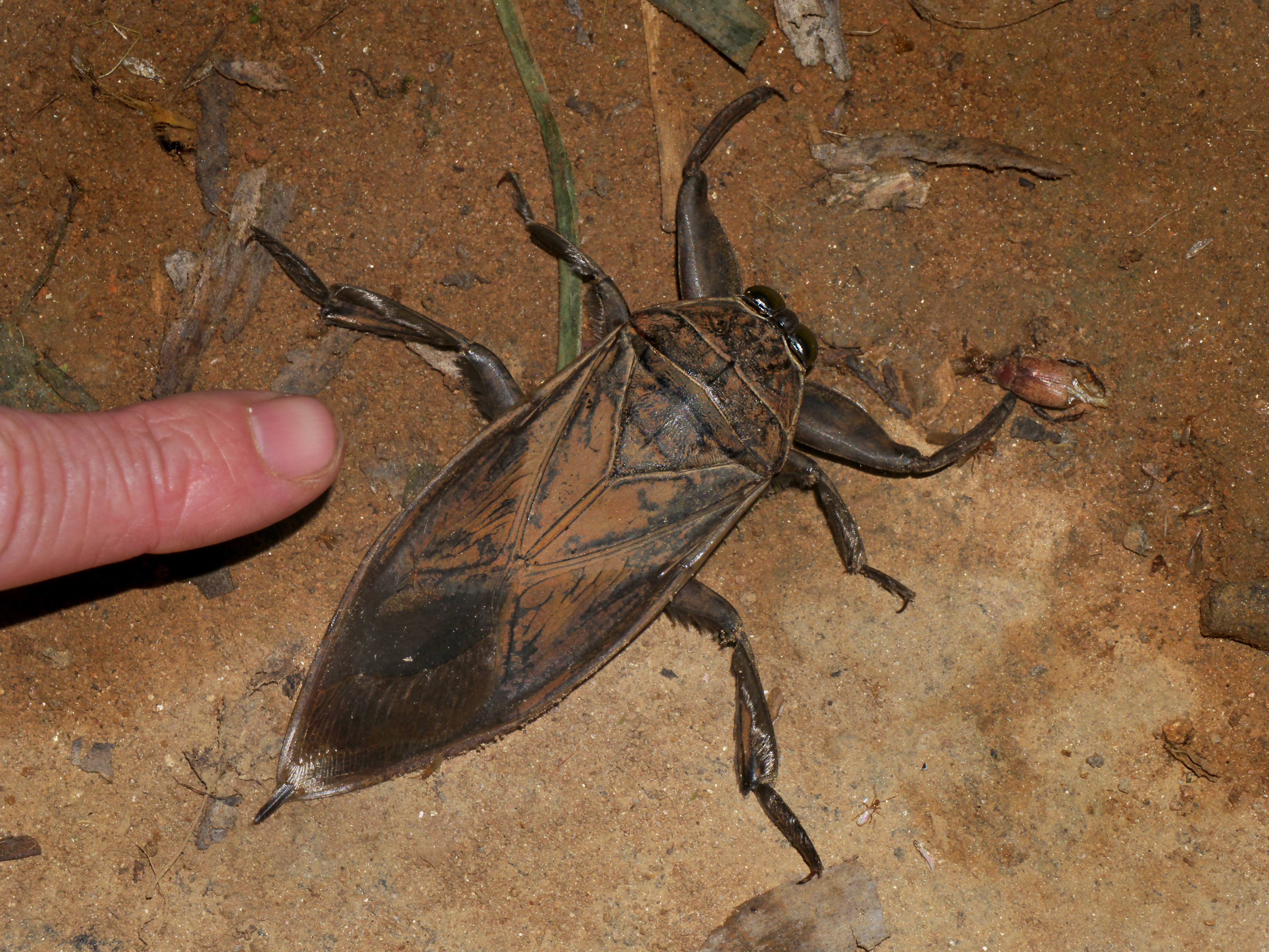 Lethocerus oculatus, a species only found in Madagascar. Giant water bugs have toxic saliva capable of provoking intense pain and paralysis in vertebrates, a fact that has led them to be named “toe-biters". Their bite is considered one of the most painful that can be inflicted by any insect. They are also known as “electric light bugs” as they are attracted to electric lights. Panasonic GX7 + Leica DG Macro-Elmarit 45mm F2.8 ASPH OIS